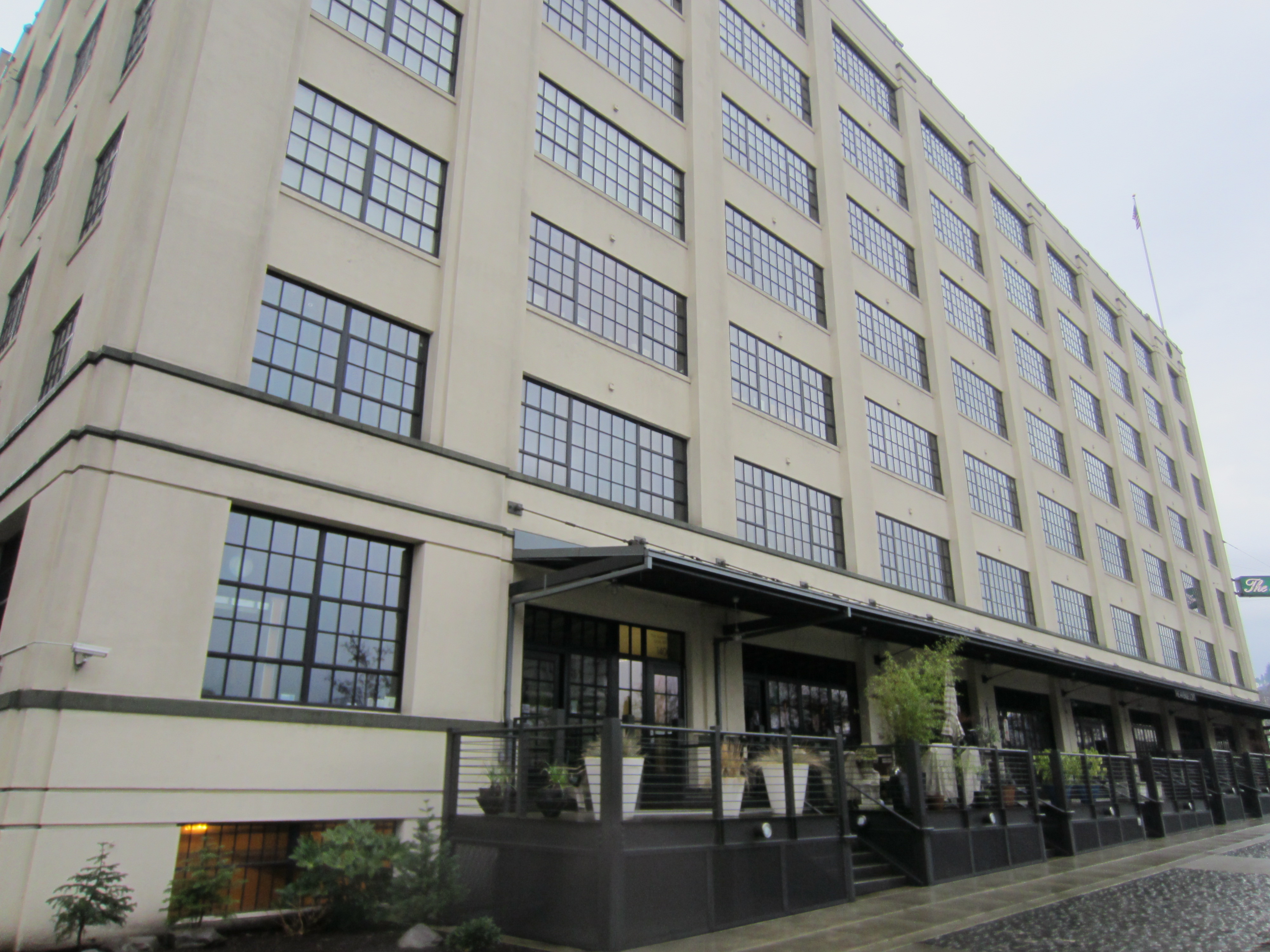 Meier & Frank Warehouse in downtown Portland, Oregon in 2012